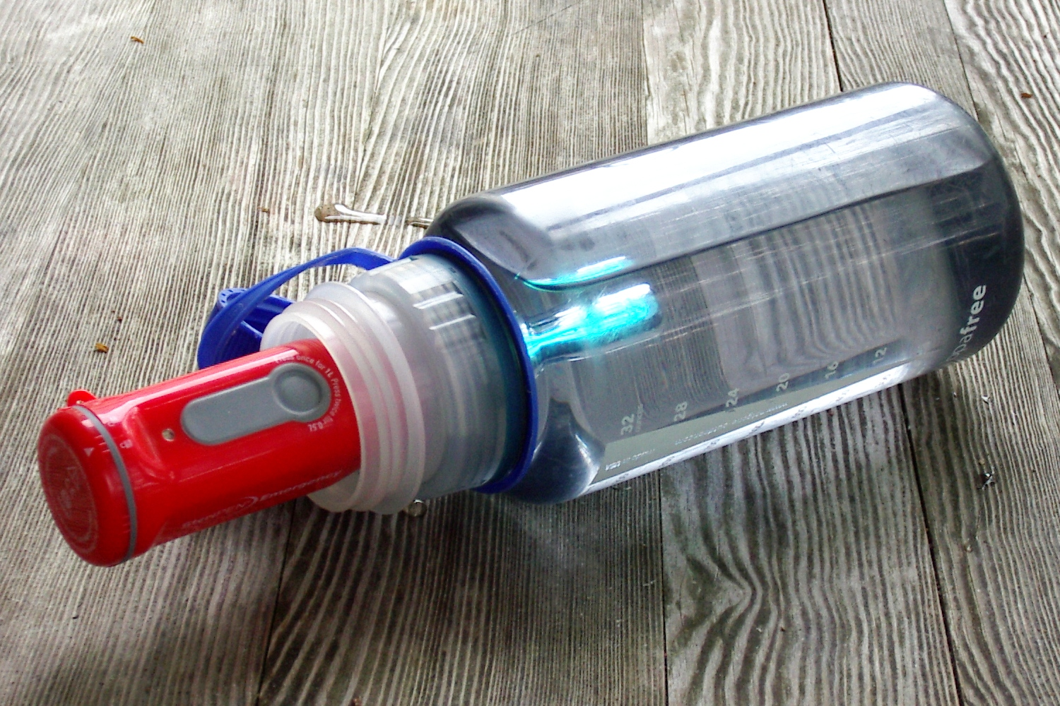 SteriPEN portable UV water purifier in use.